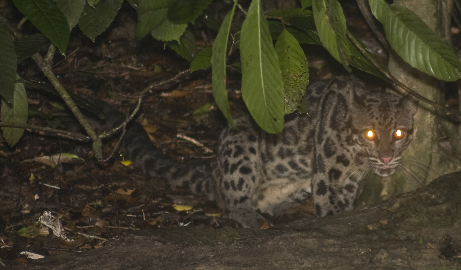 Bornean Clouded Leopard (Neofelis diardi). Photo taken at the lower Kinabatangan River, eastern Sabah, Malaysia.